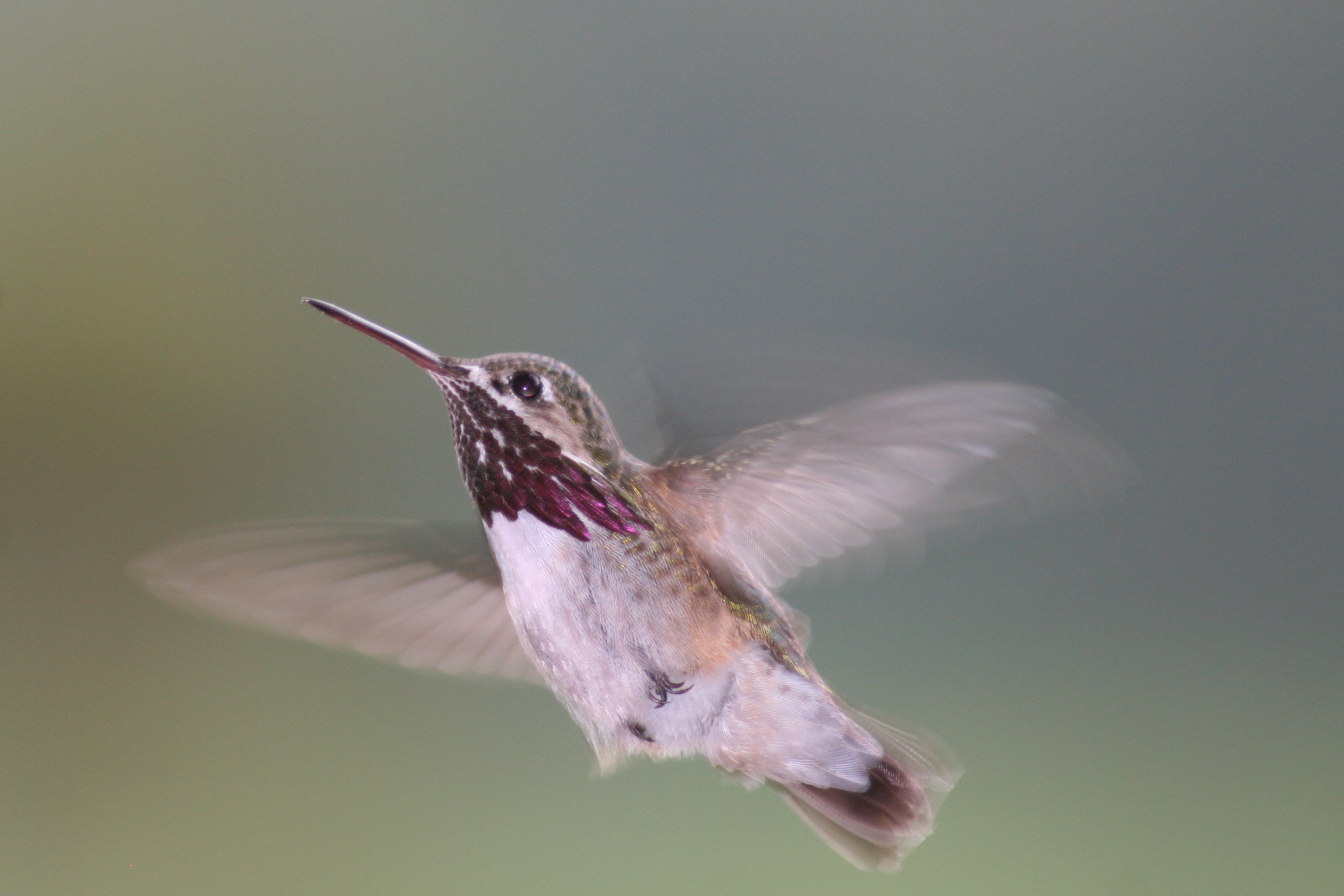 Pause in Flight; Calliope Hummingbird (Stellula calliope) in Wilson, WY